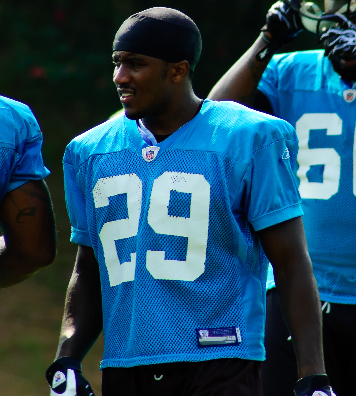 Carolina Panthers Training Camp on August 11, 2010 at Wofford College in Spartanburg, SC.